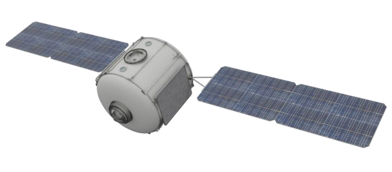 Notional-Mars-Transit-Habitat-1000-days,-6-crew Source : Design Reference Architecture 5.0 Annexe 2 (2014)